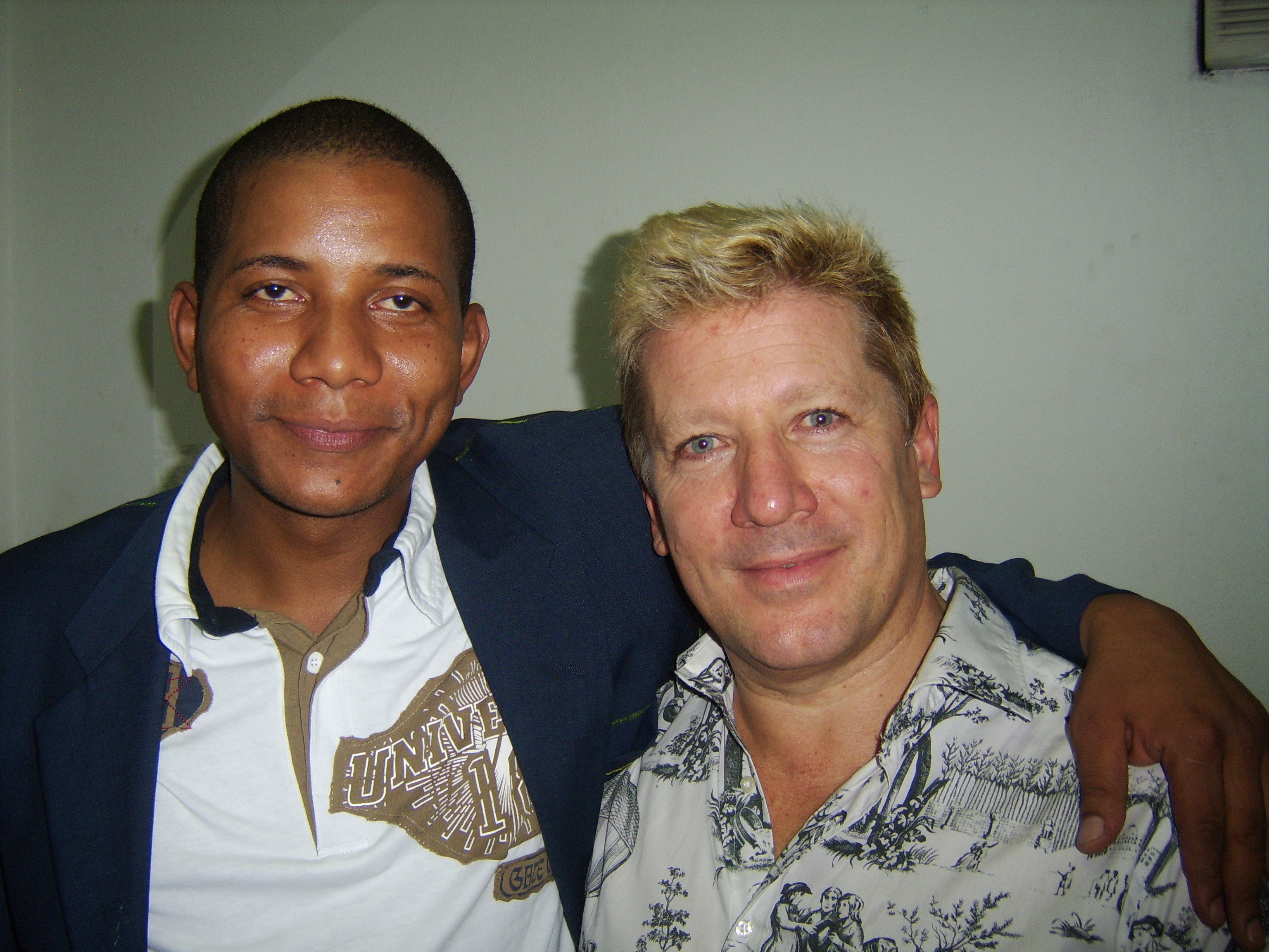 Pedro and Herman